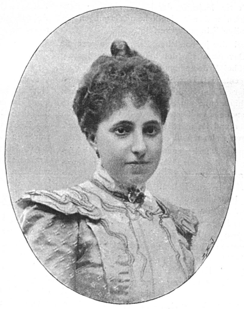 María de las Mercedes Princess of Asturias